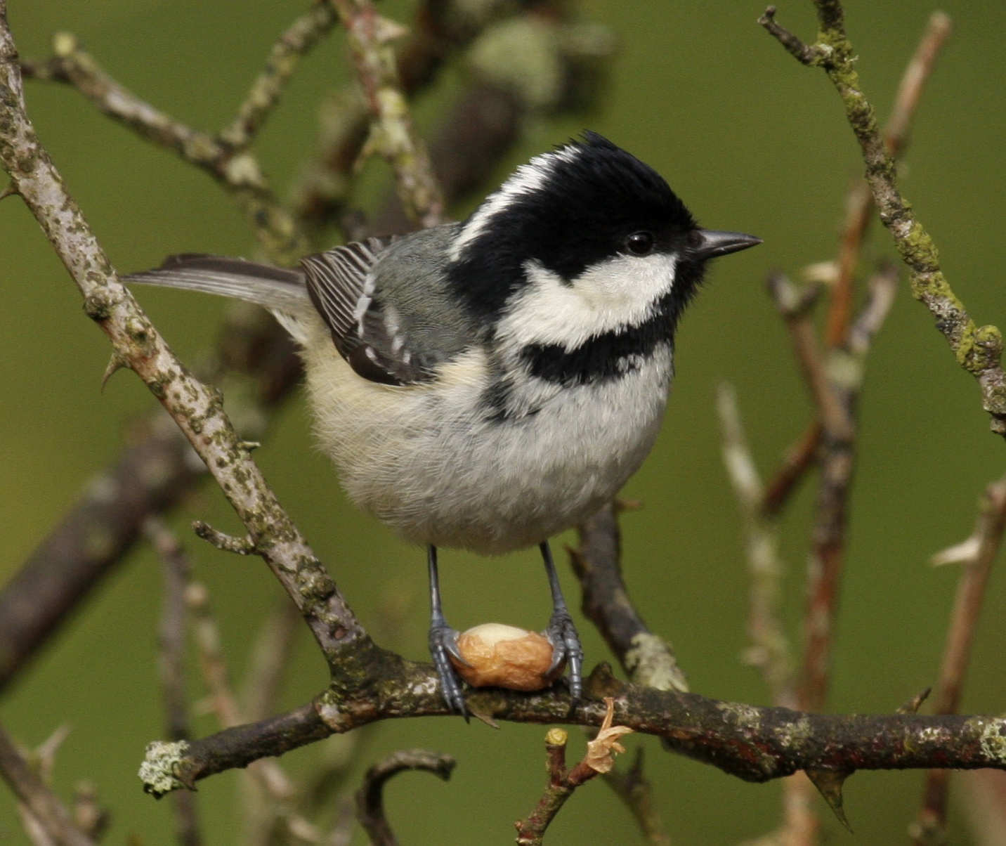 Coal Tit (Periparus ater) Princetown, Devon, England